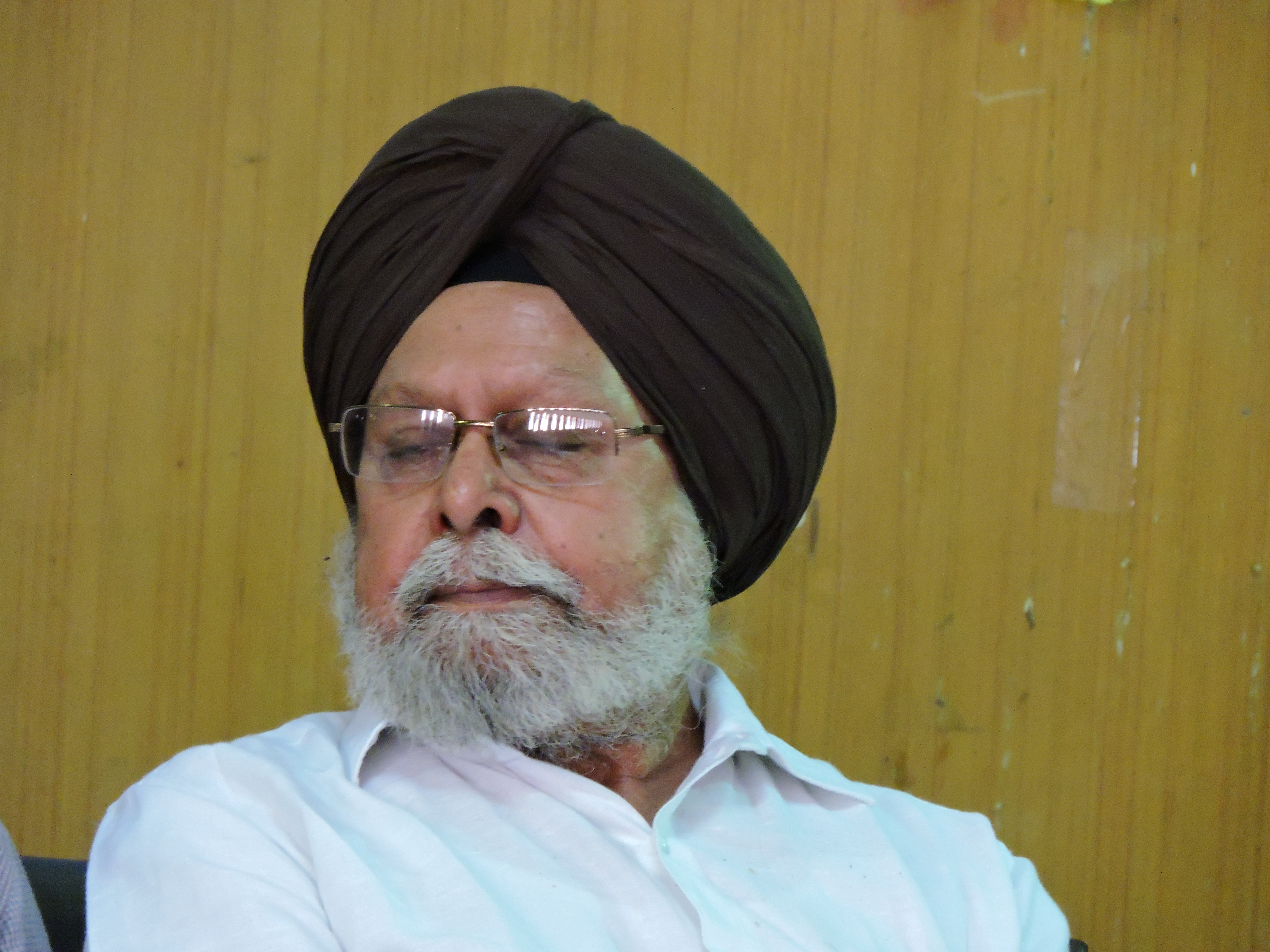 Mohanjit Punjabi language Poet